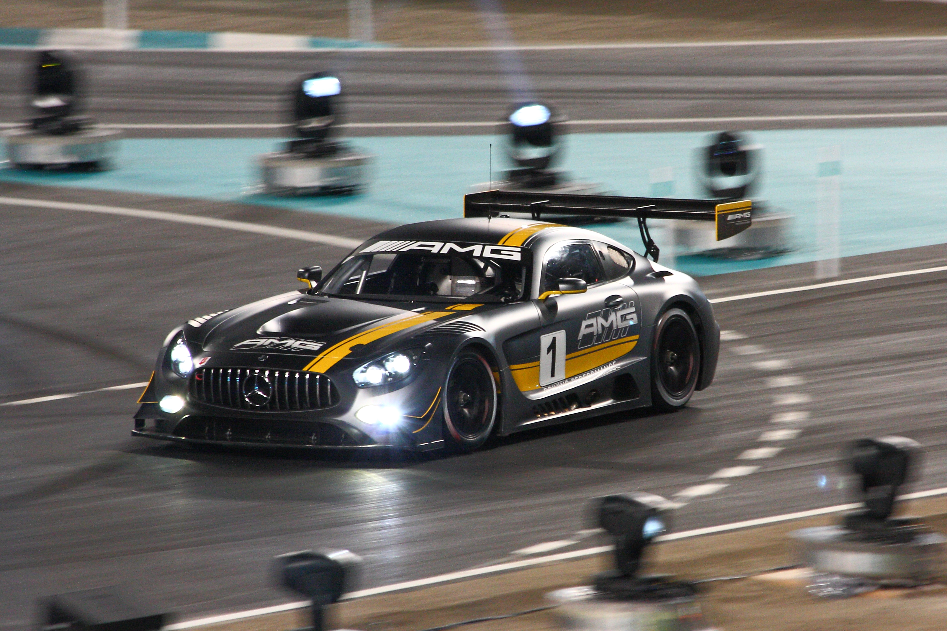 Mercedes-AMG GT3 at Stars and Cars 2015